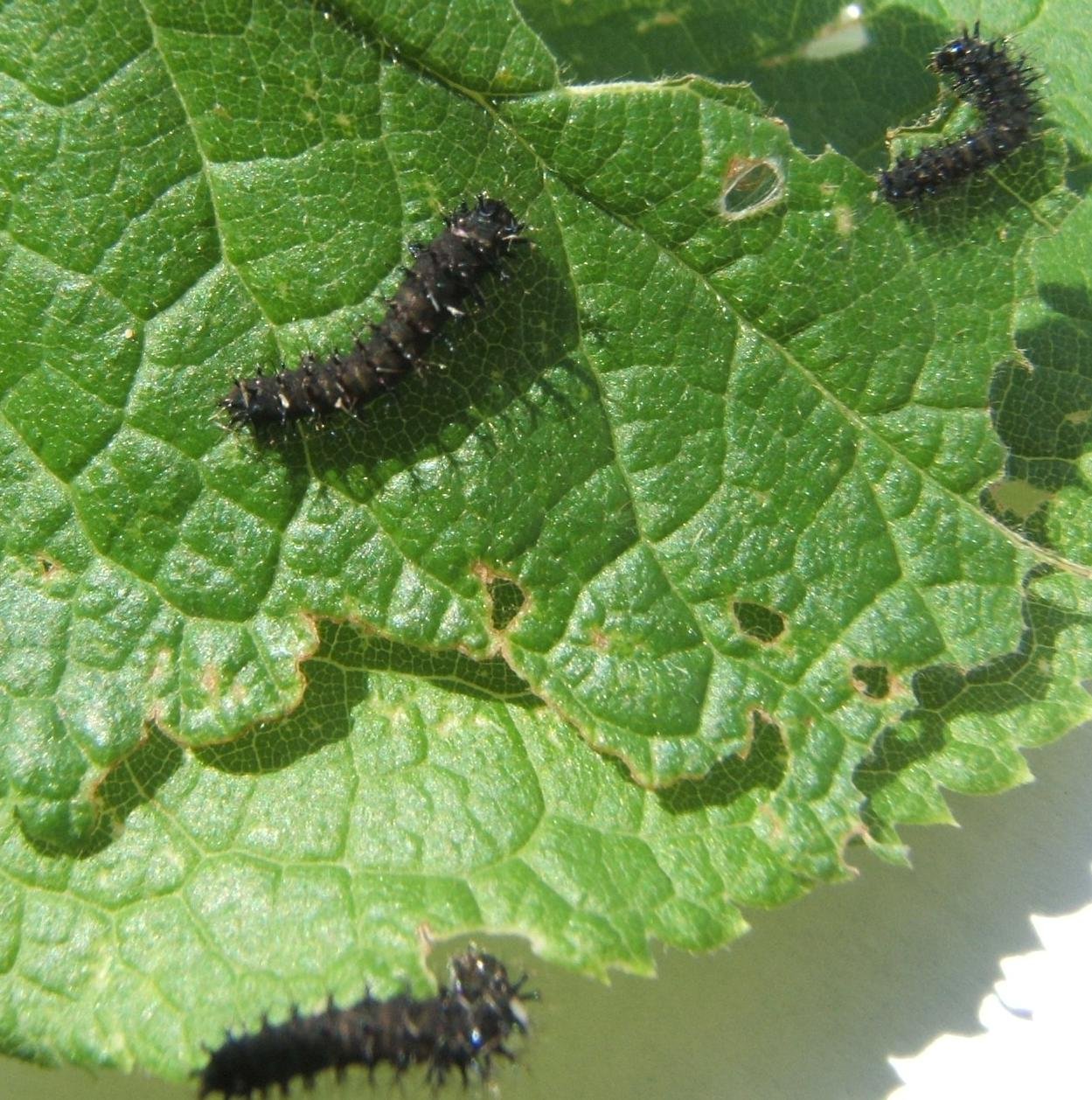 Hyalophora cecropia 1st instar taken by Shawn Hanrahan and reared on Cherry.